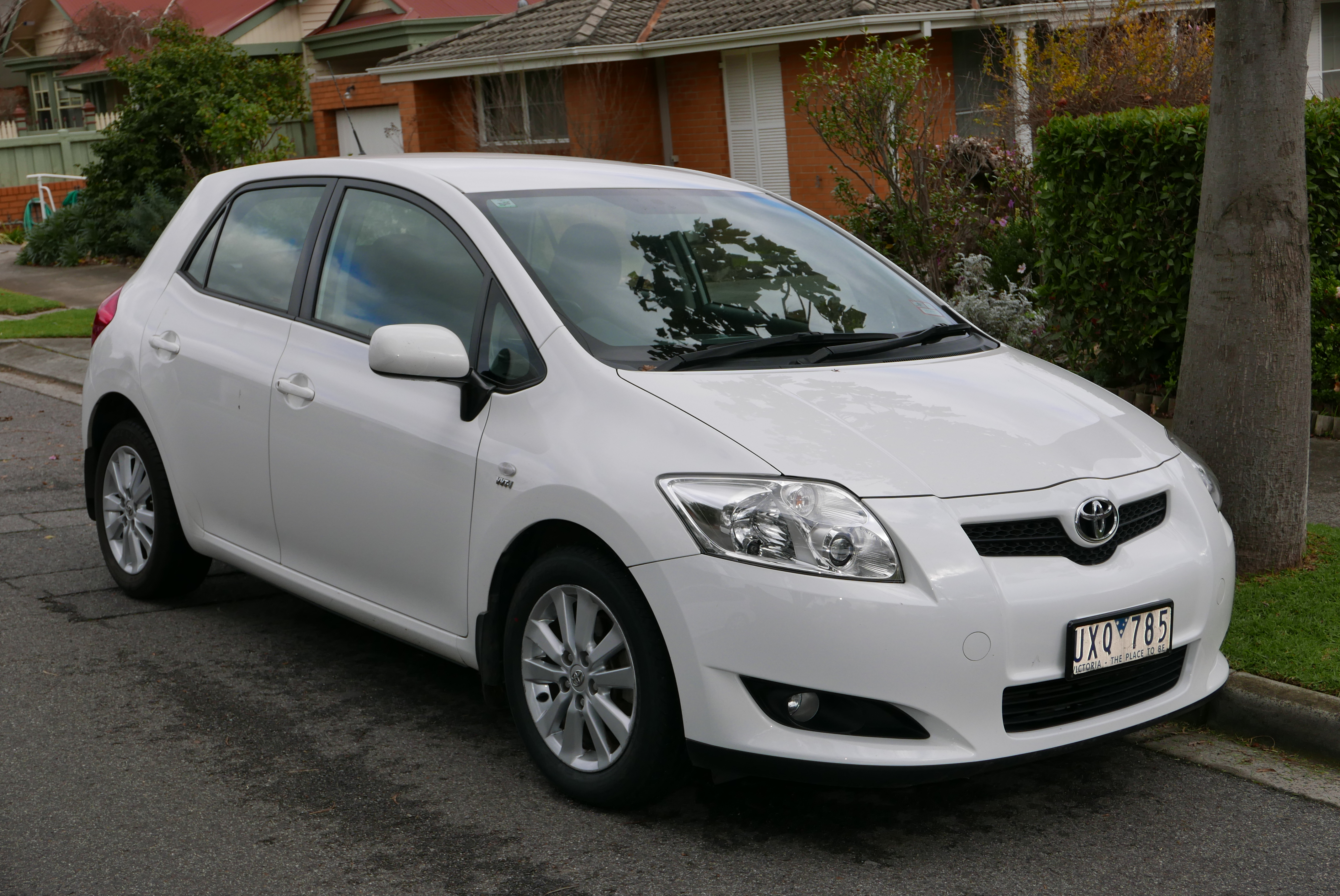 2007 Toyota Corolla (ZRE152R) Conquest Seca 5-door hatchback. Photographed in Ivanhoe, Victoria, Australia. Vehicle registration enquiry resultsJurisdictionVictoriaRegistrationUXQ785Chassis codeJTNKU56E701016344Engine code2ZRA022159Compliance date2007-07Year of manufacture2007